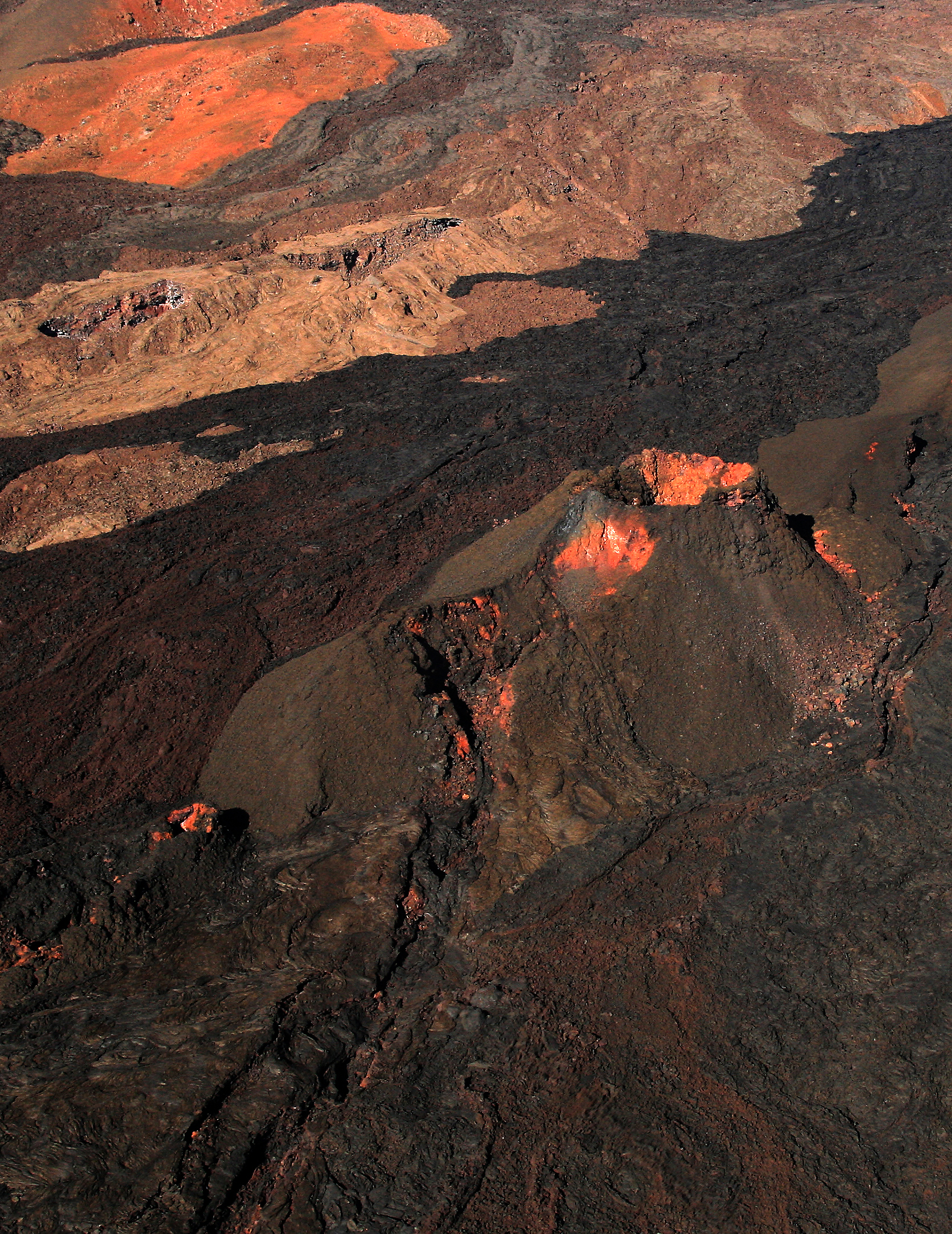 A volcanic vent and lava flows from various eruptions on the flank of Mauna Loa, photographed from a helicopter.